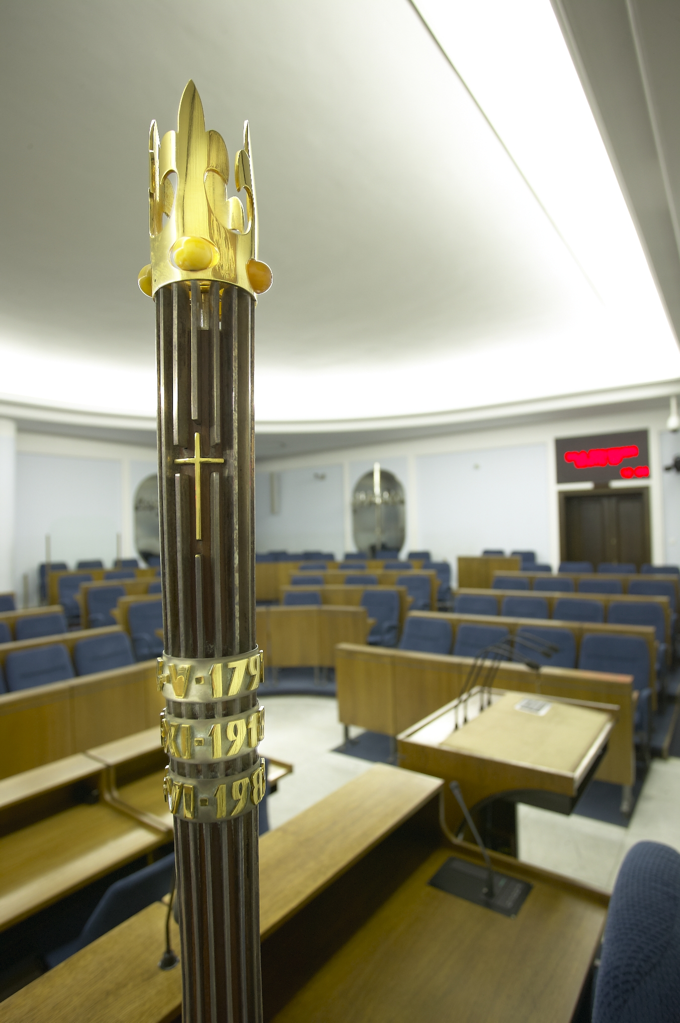 Polish Senate Debate Hall